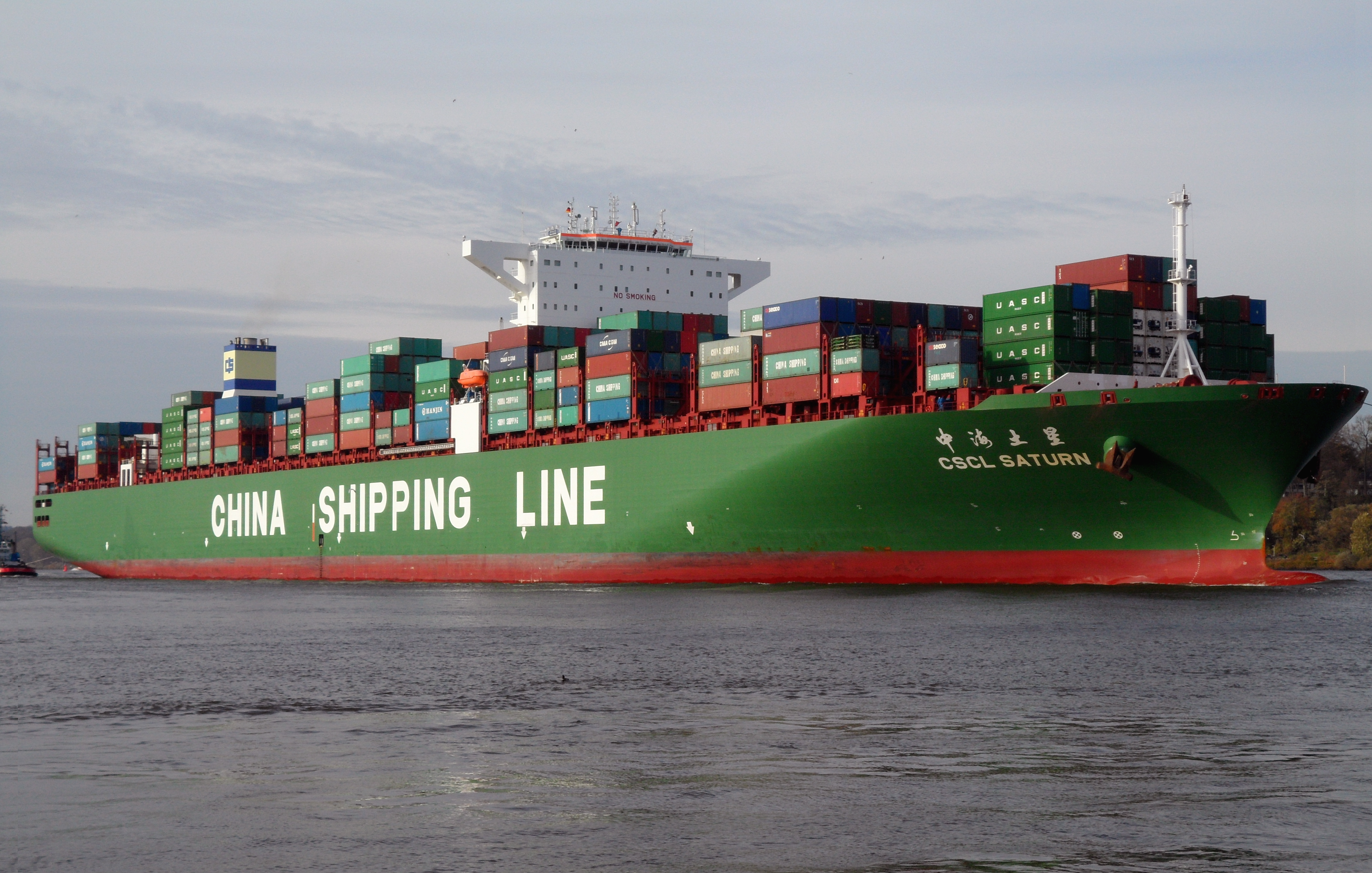 Container ship CSCL Saturn in approach, Port of Hamburg - November 2013